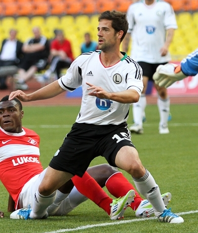 Association football player Iñaki Astiz Ventura from Spain during UEFA Europa League qualification match between Legia Warszawa and Spartak Moscow at Luzhniki Stadium.